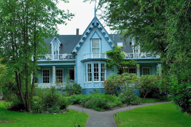 Own photograph of the Shaw House, Ferndale CA taken from the sidewalk.